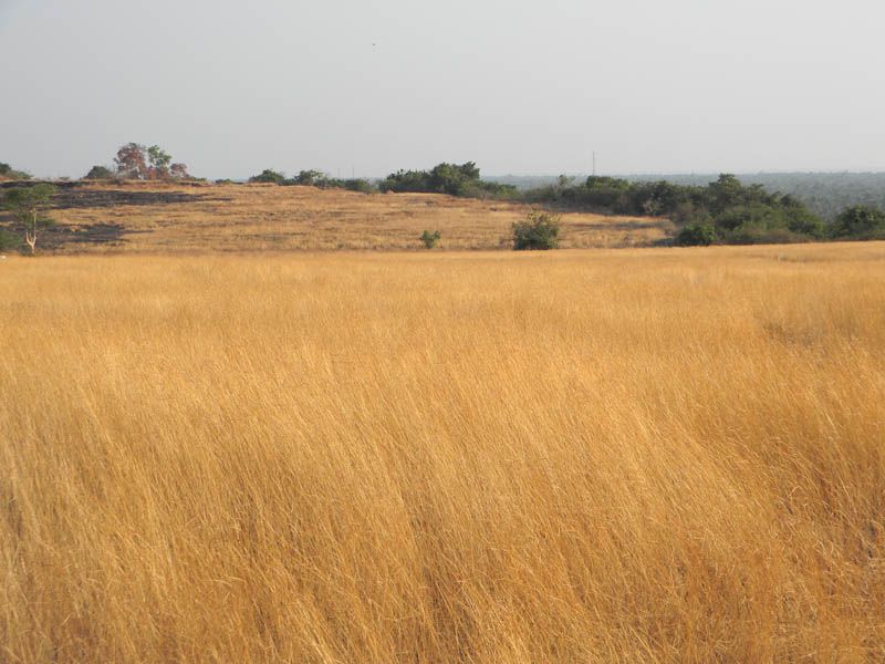 Madayi para in February